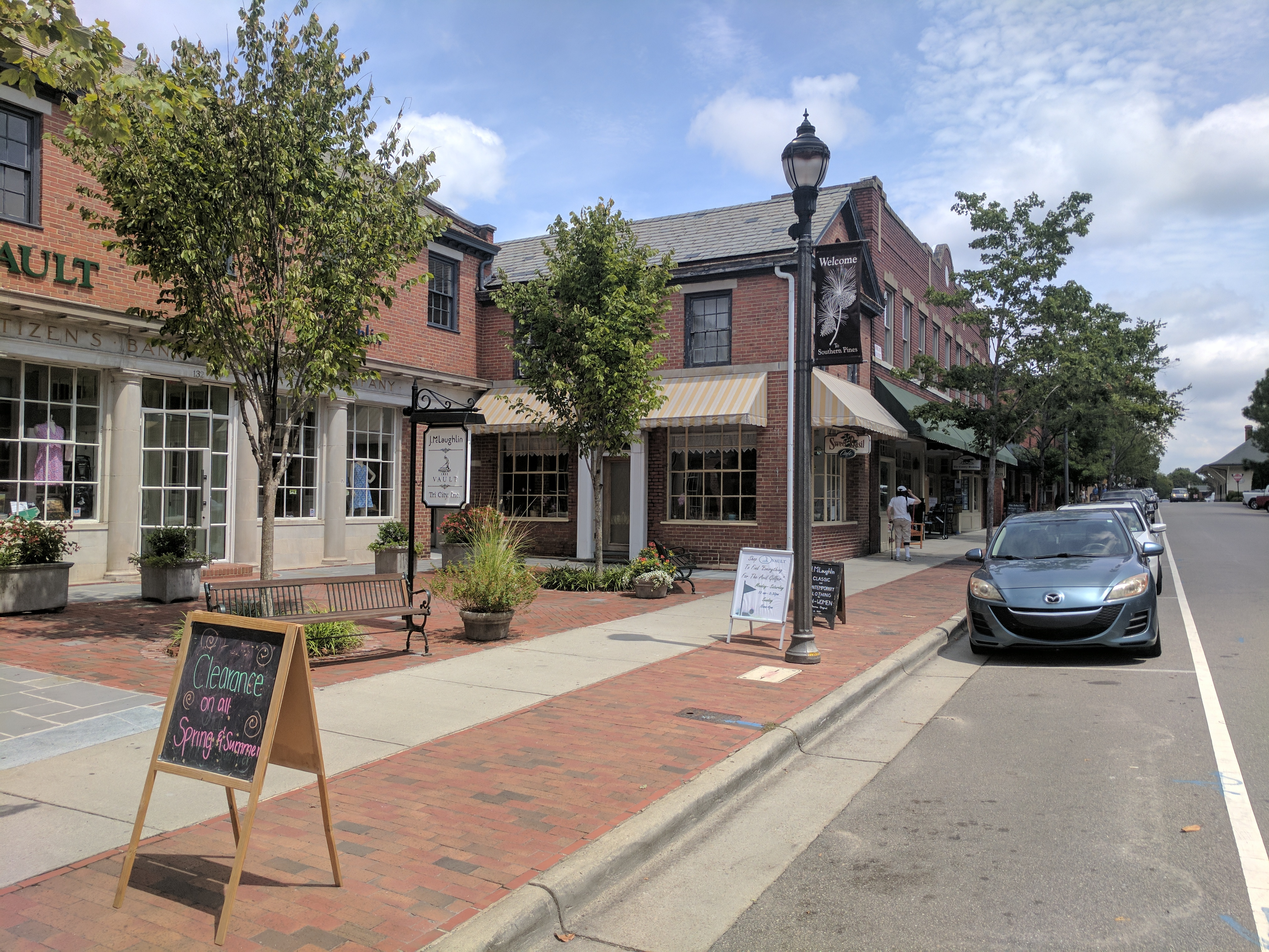 Small businesses and cars parked along N Broad St in Southern Pines, NC.